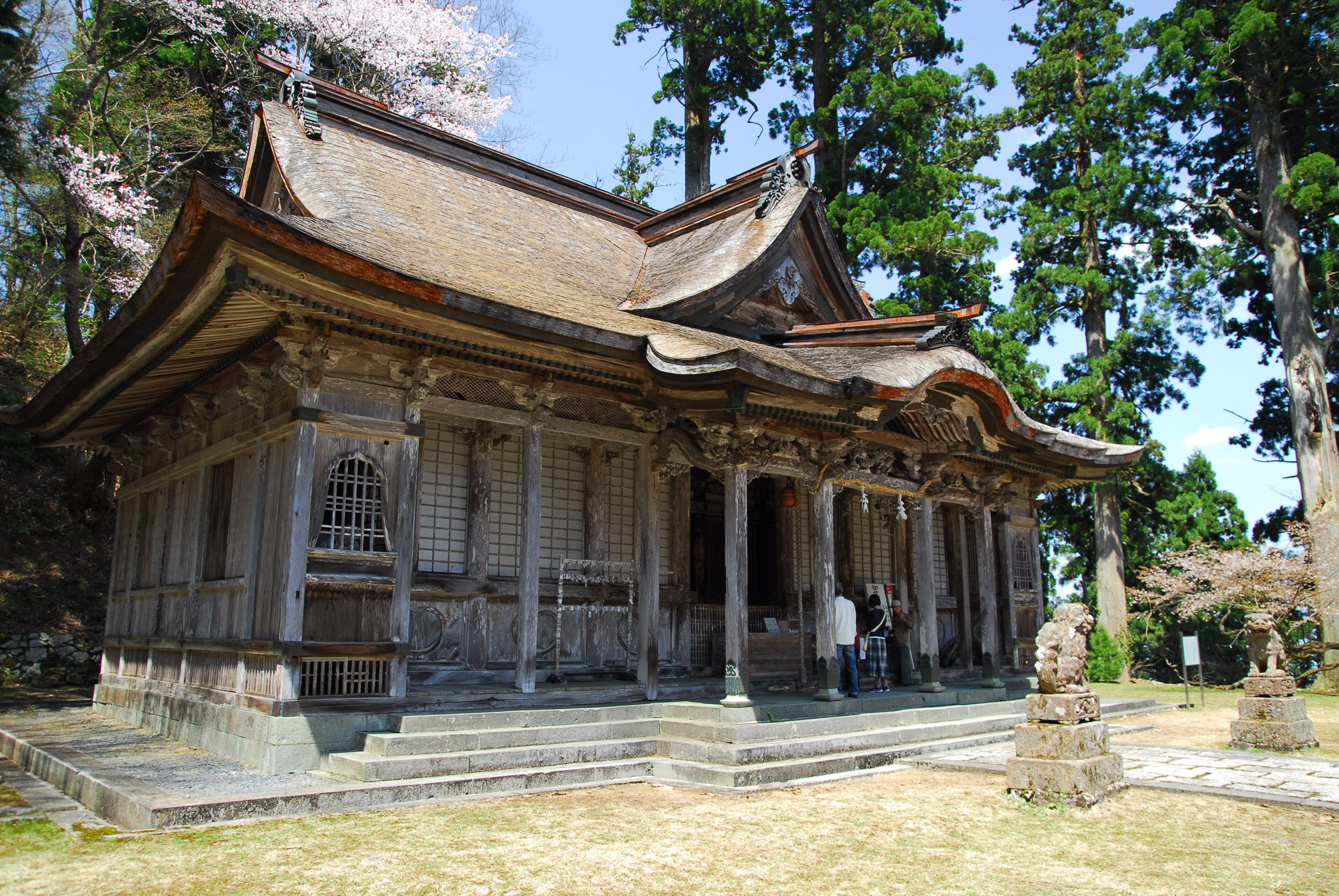 Nagusa Jinjya in Yabu ,Hyogo Prefecture,Japan.